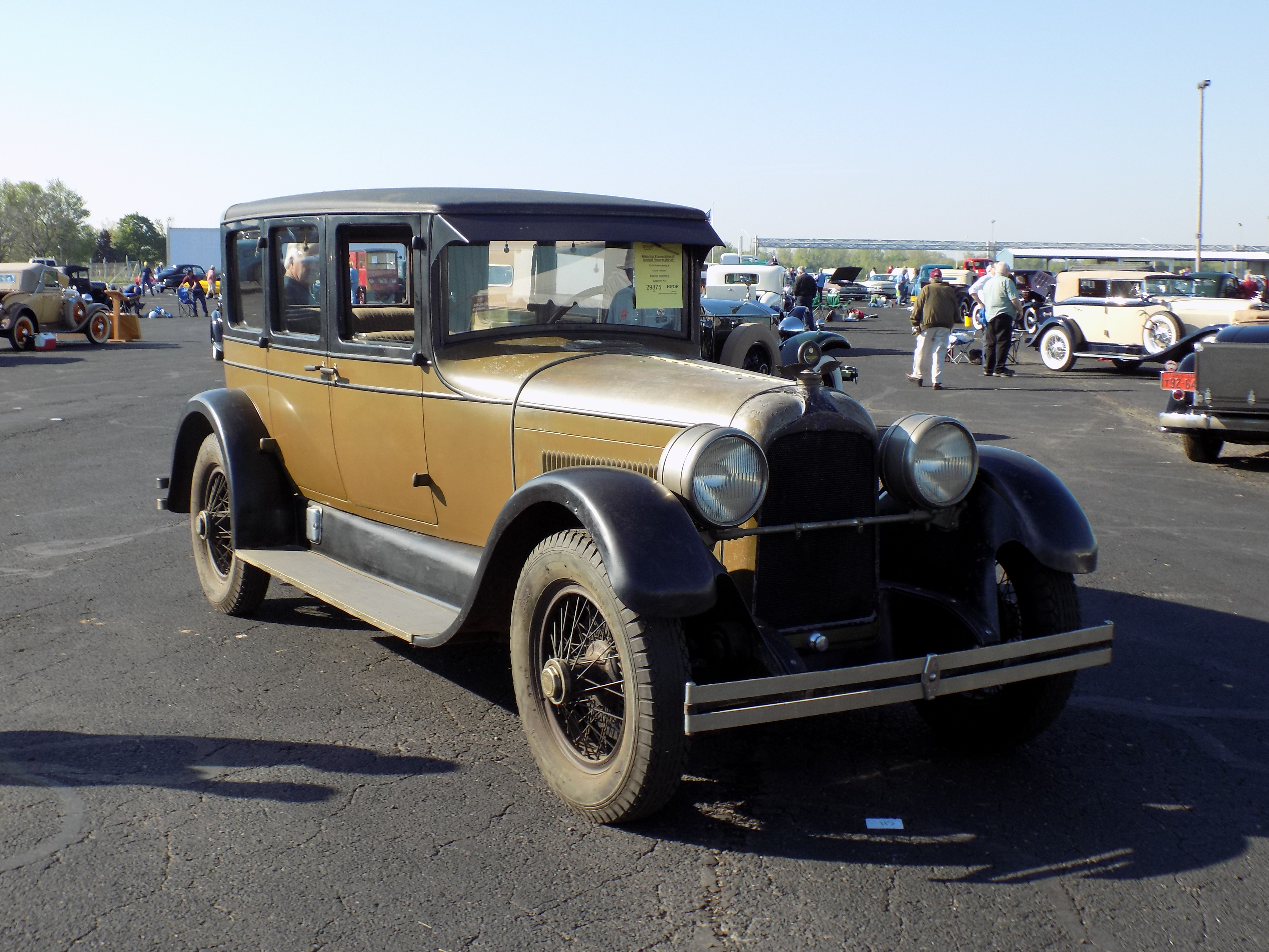 1926 Duesenberg Model A Triple Crown Event, May 2017, CCCA Auburn Indiana